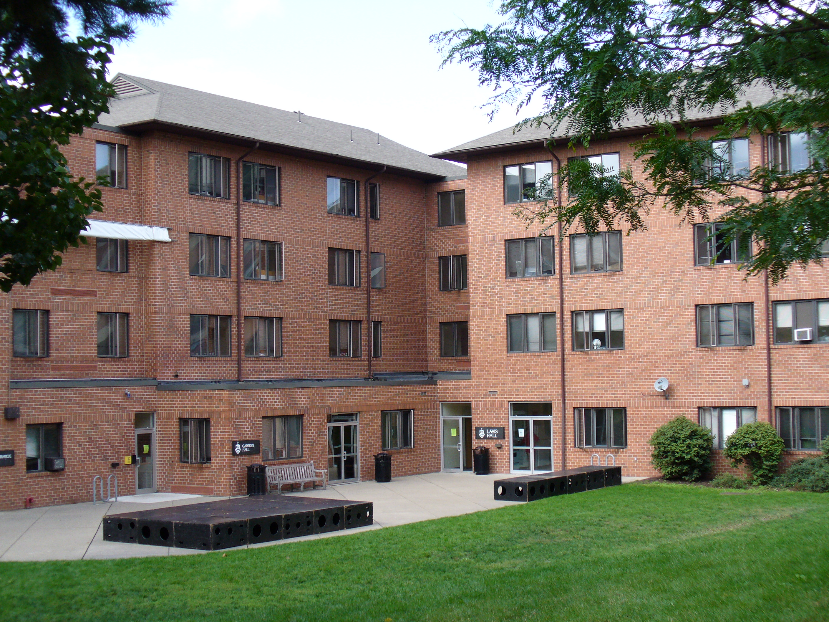 "Freshman Patio" with Lavis Hall, Gannon Hall, and McCormick Hall dorms of University of Scranton, at Scranton, Pennsylvania, United States.